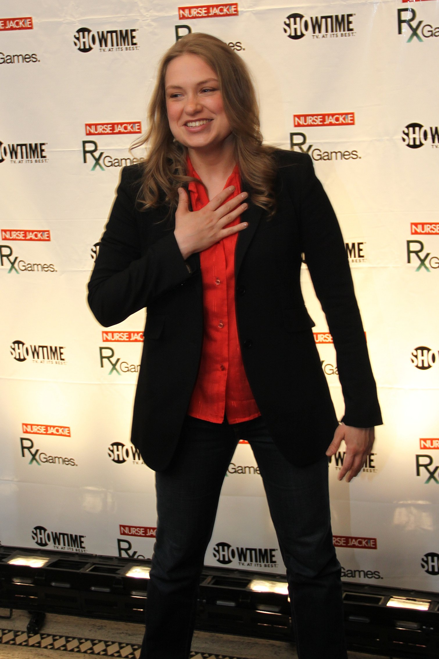 March 18, 2010 at Gotham Hall, NYC.